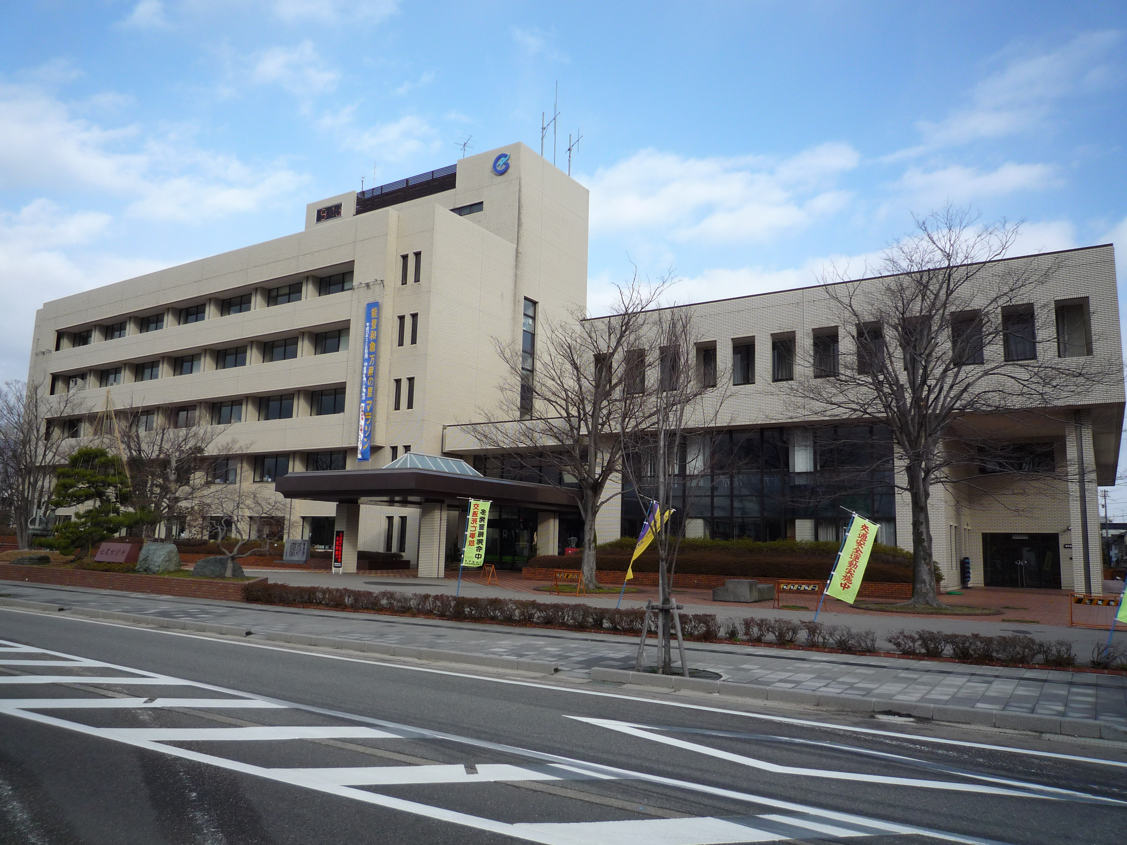 nanao city office